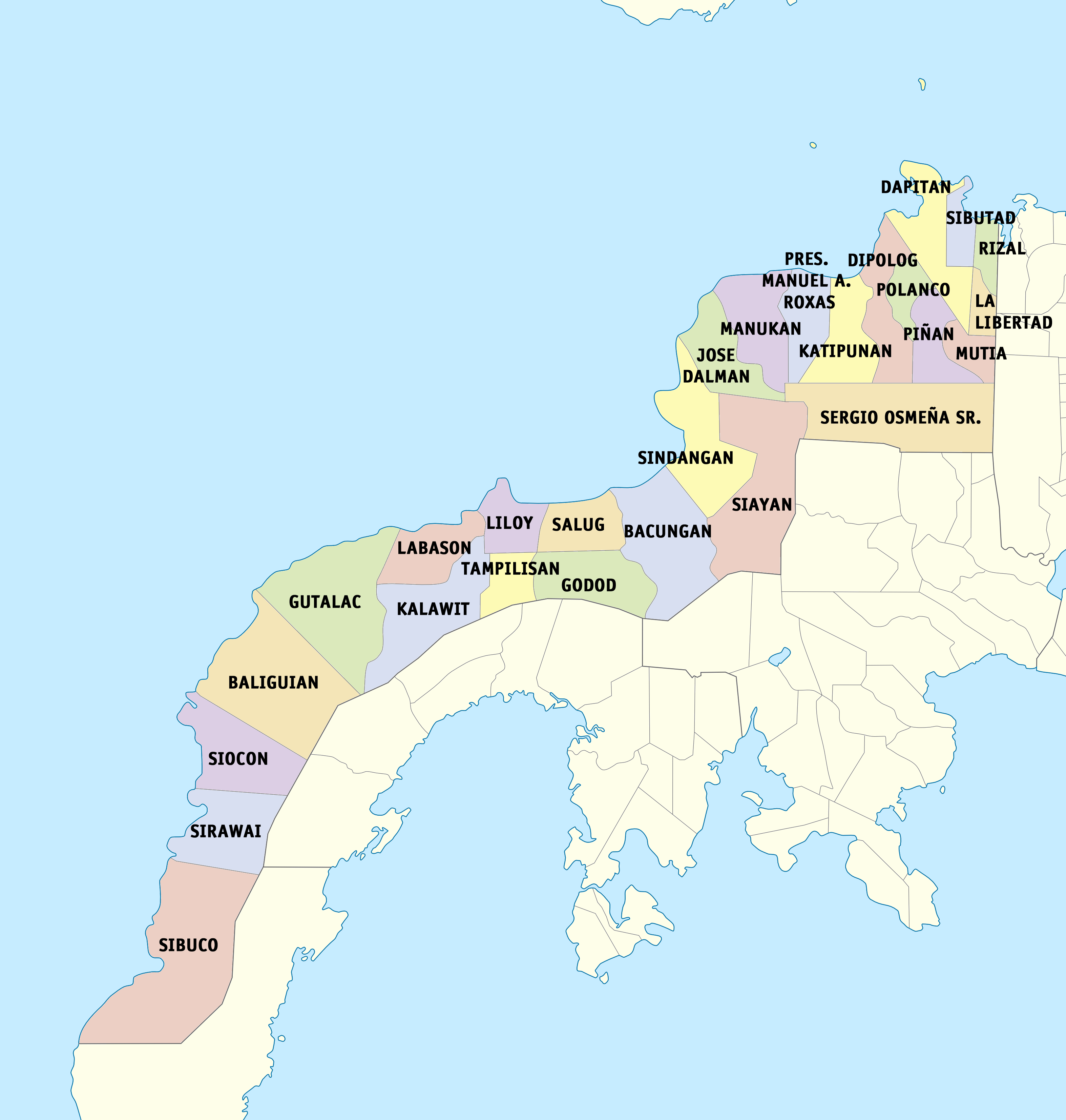 Political map of Zamboanga del Norte, Philippines